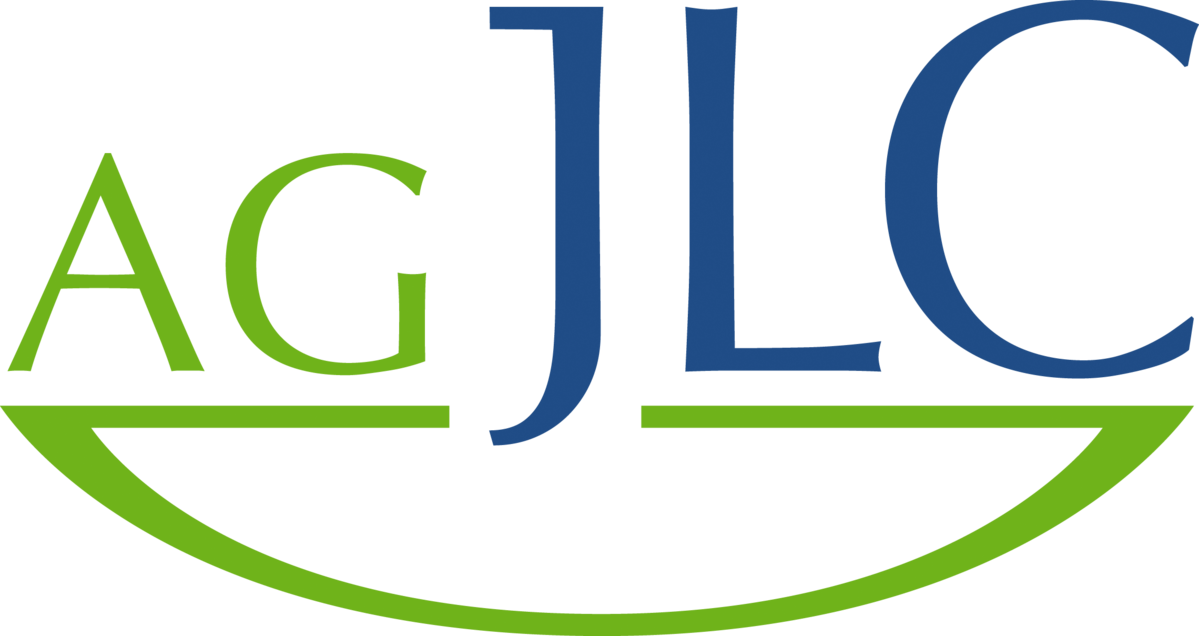 Logo of the joung food chemists (AG JLC), a working group of the German Food Chemical Society, an expert group of the society of German Chemists.